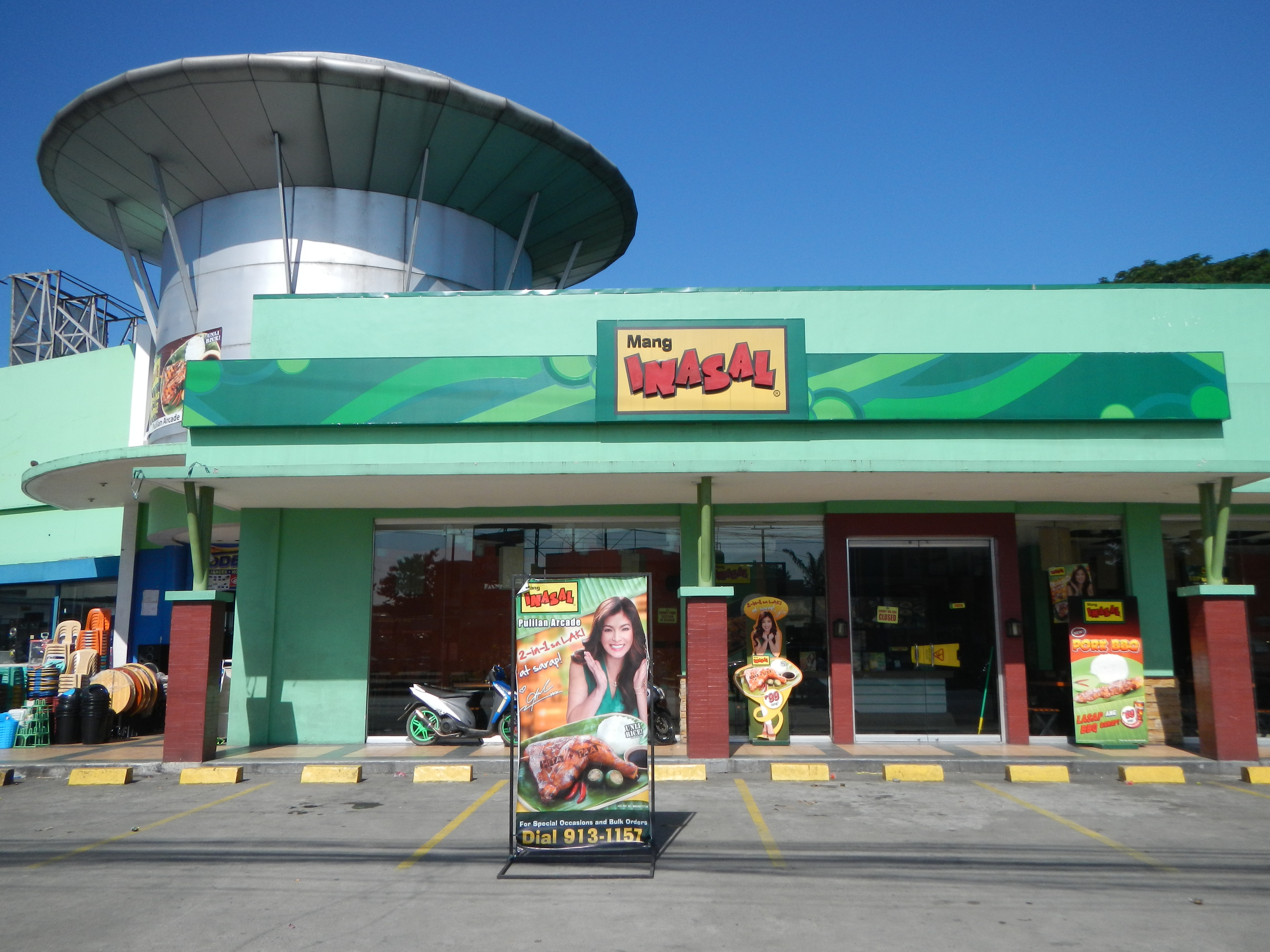 Upload Wizard photos of - Sto.Cristo, Baliuag, Bulacan,[1],[2] Coordinates: 14°57'19"N 120°53'33"E - the rice and vegetable fields, planting vegetables, now, a project of the Municipality of Baliuag, in front of the dike and SM_City Baliuag[3] - latitude 14.960872 and longtitude 120.890892 on the map of Philippines at Doña Remedios Trinidad Highway, Brgy. Pagala, Baliwag, Bulacan, Baliuag Slaughter house, and Mang Inasal[4] (Hiligaynon for Mr. Barbecue is a restaurant in the Philippines), photo here, in Pulilang, Bulacan).[5] Brgy. Cutcot cor. Doña Remedios Trinidad Highway, Coordinates: 14°54'8"N 120°52'3"E Pulilan Bulacan.[6]